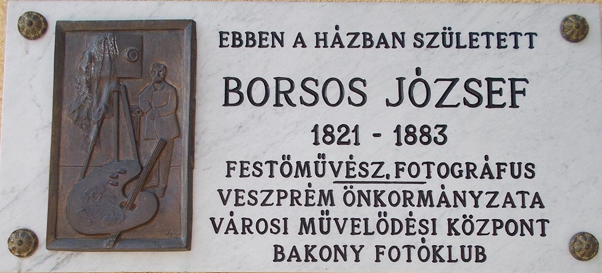 Borsos house. - Völgyhíd sq,Dózsaváros, Veszprém, Veszprém County, Hungary.